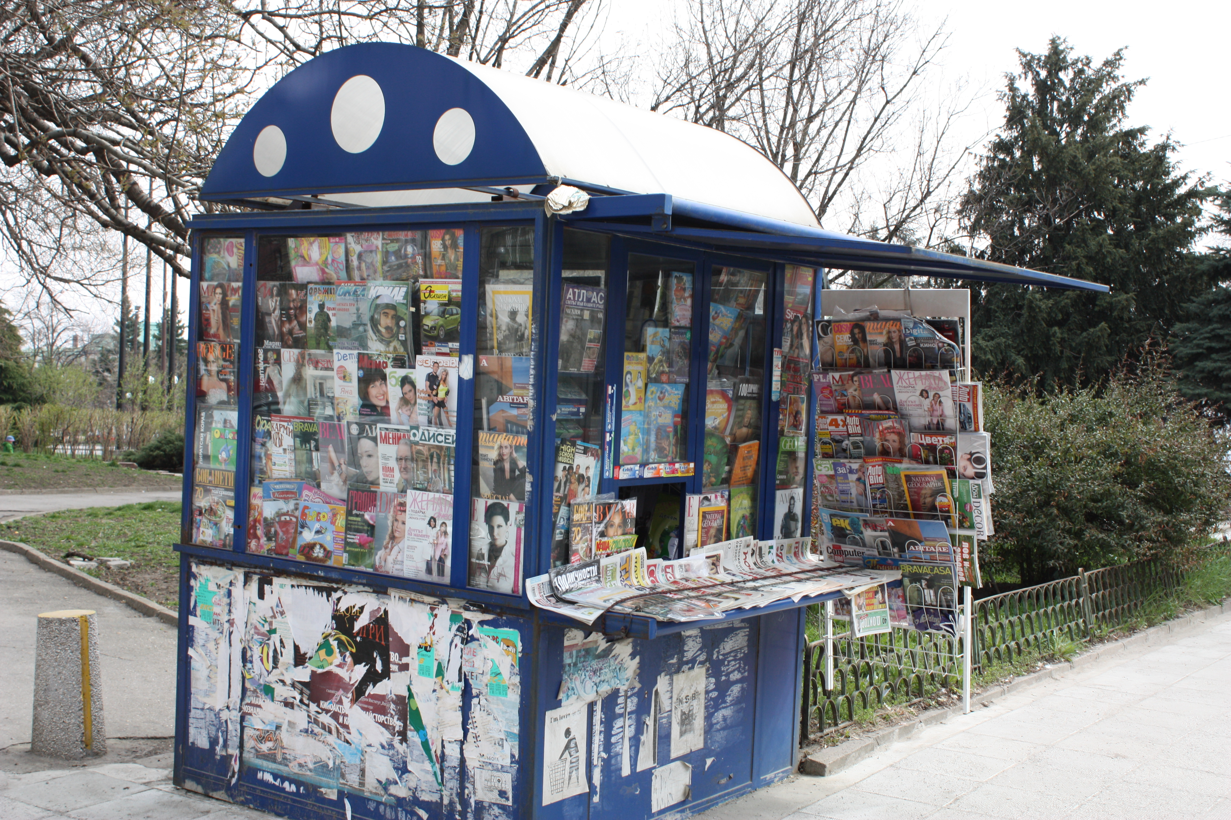 Newspaper stand Sofia, Bulgaria